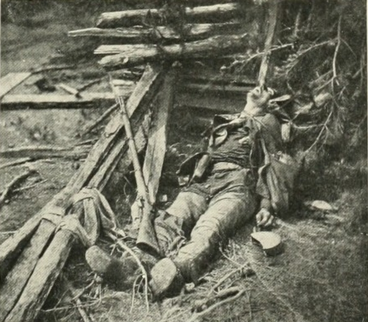 This unidentified, dead Confederate soldier of Ewell's Corp was killed during their attack at Allsop's Farm during the Battle of Spotsylvania. His right knee had been shattered and he had bandaged it but a later wound tearing his left shoulder apart caused him to bleed to death.